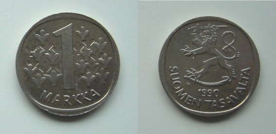 Finnish Markka minted 1990